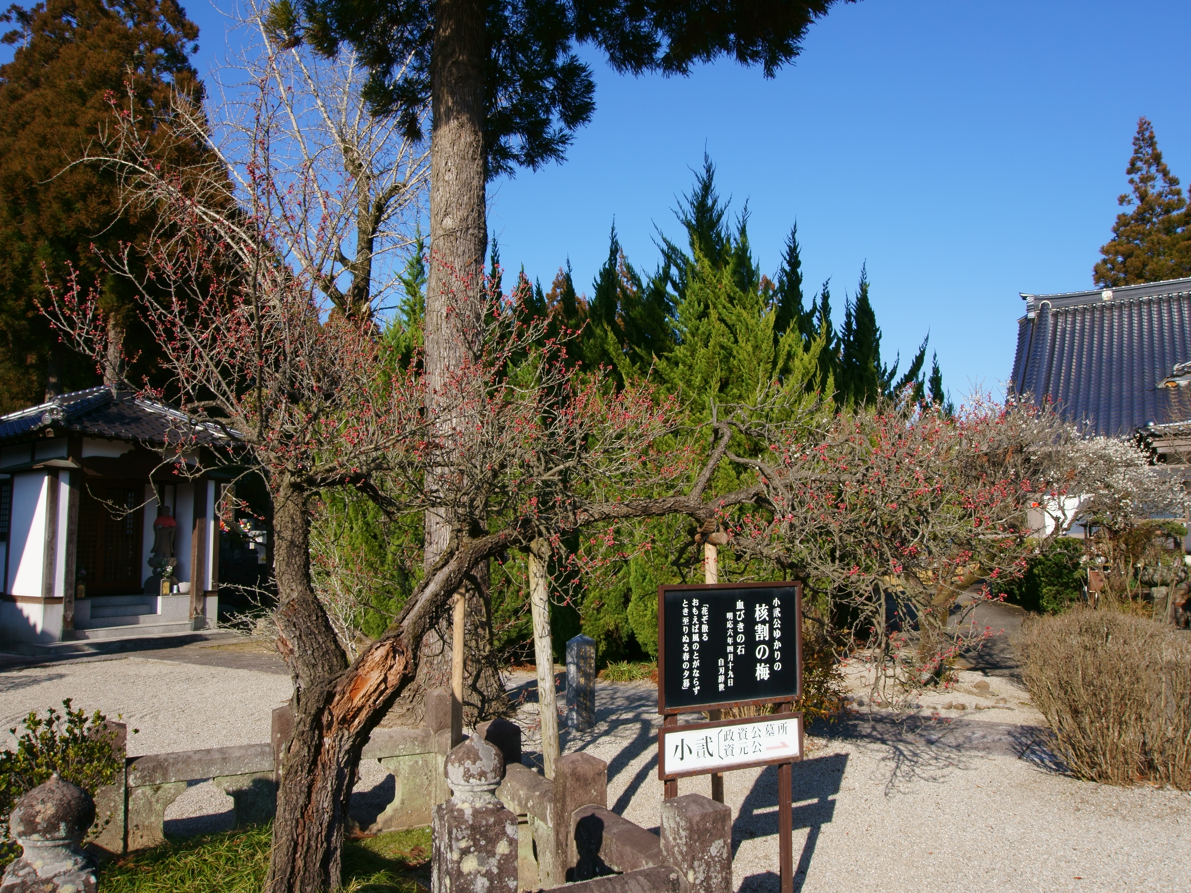 "Saneware no Ume", means a cracked seed ume(Japanese plum) tree, at Senshō-ji Temple in Taku, Saga prefecture.